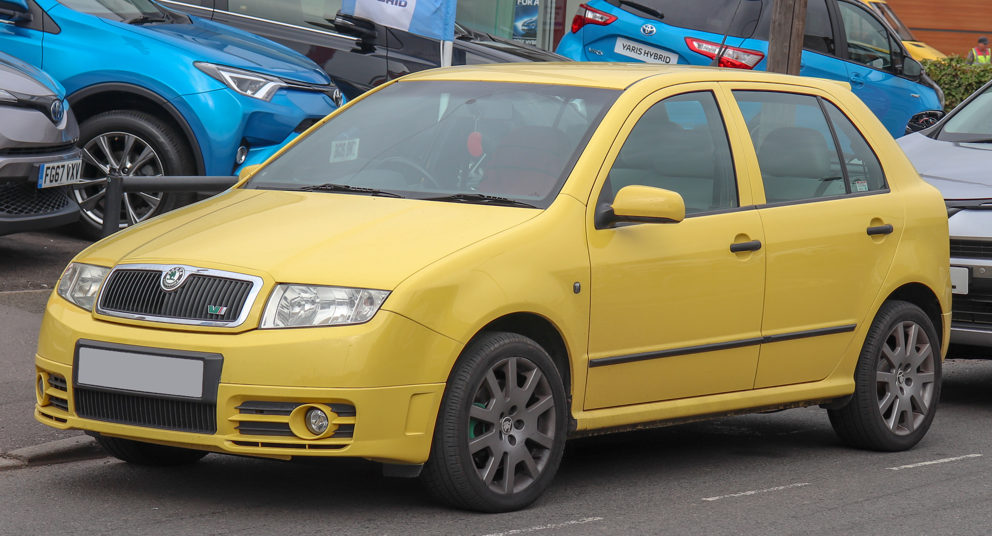 2005 Skoda Fabia VRS TDi PD 130 1.8 Taken in Stratford-upon-Avon